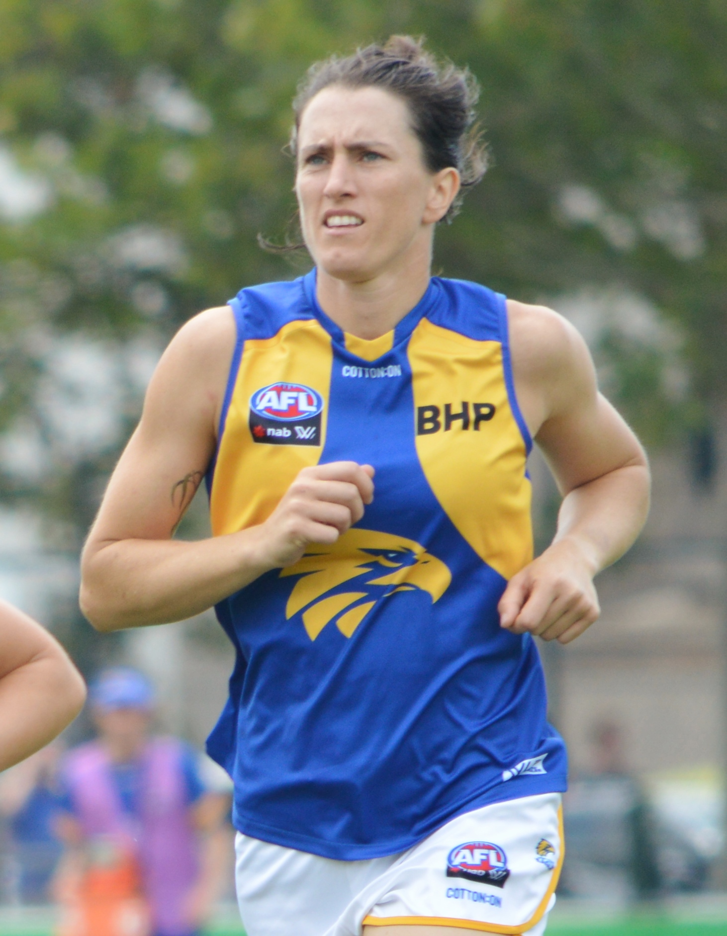 Andrea Gilmore with West Coast during a pre-season AFL Women's match against Richmond at Punt Road Oval in January 2020.